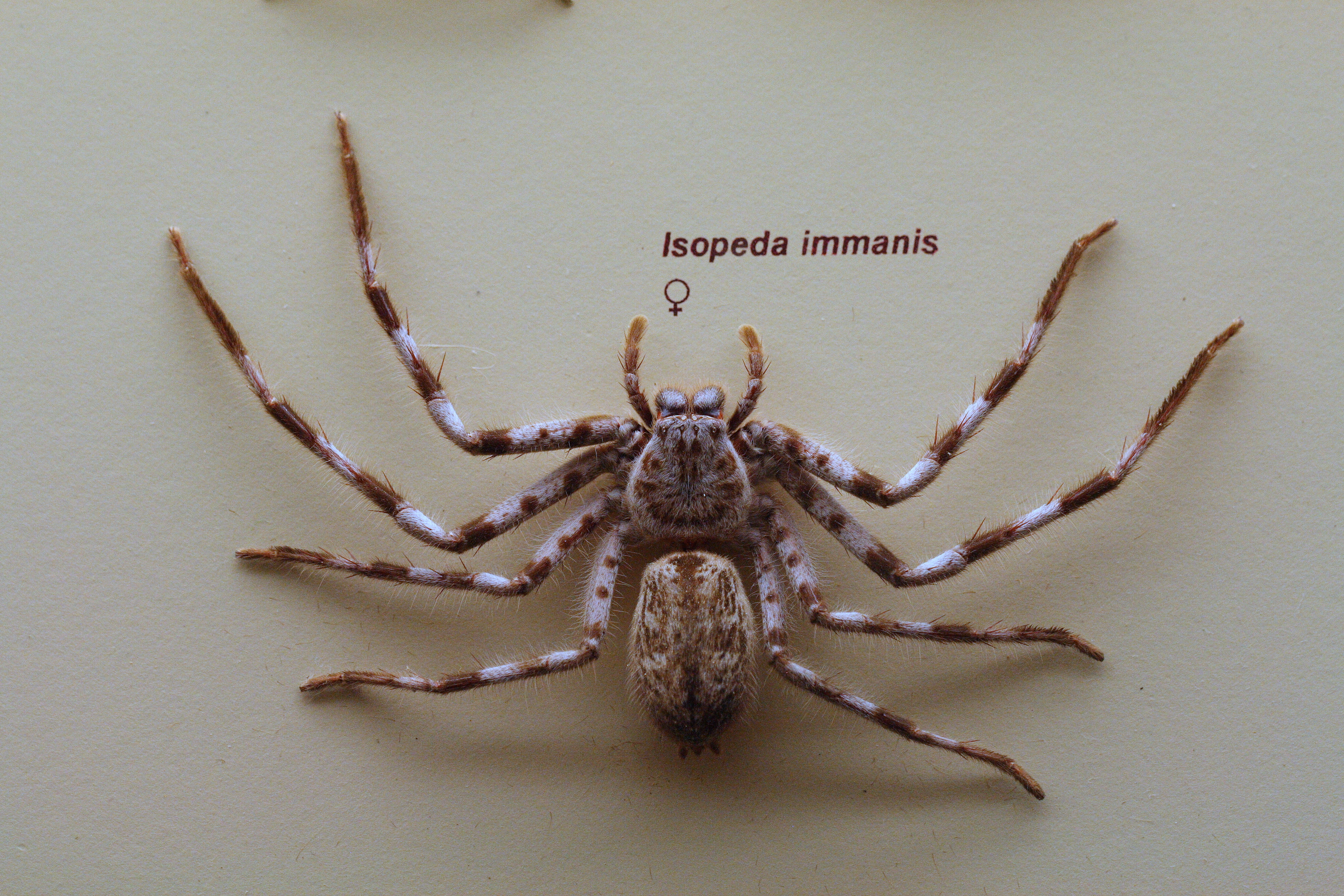 Specimen in the Australian Museum spider display.